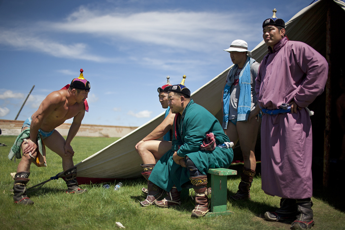 Wrestlers wait on the sidelines during a Naadam competition. Ugtaal Soum, Mongolia.